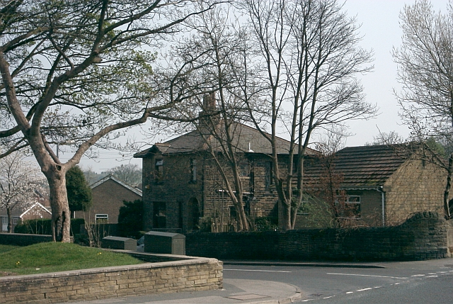 House of the former station master for Clayton The Bradford to Halifax line via Clayton and Queensbury The station finally closed to all traffic (including goods)in April 1961